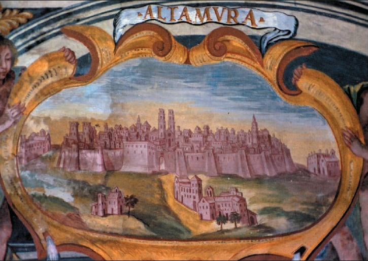 Sketch of Altamura - in "Salone degli stemmi del palazzo arcivescovile di Matera"